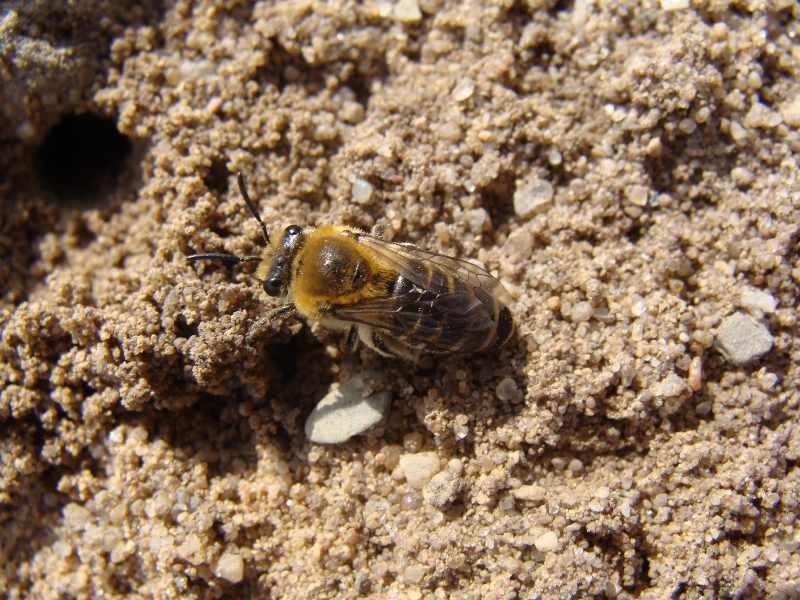 Colletes succinctus. Location: Ermelo - Ermelosche Heide (the Netherlands)